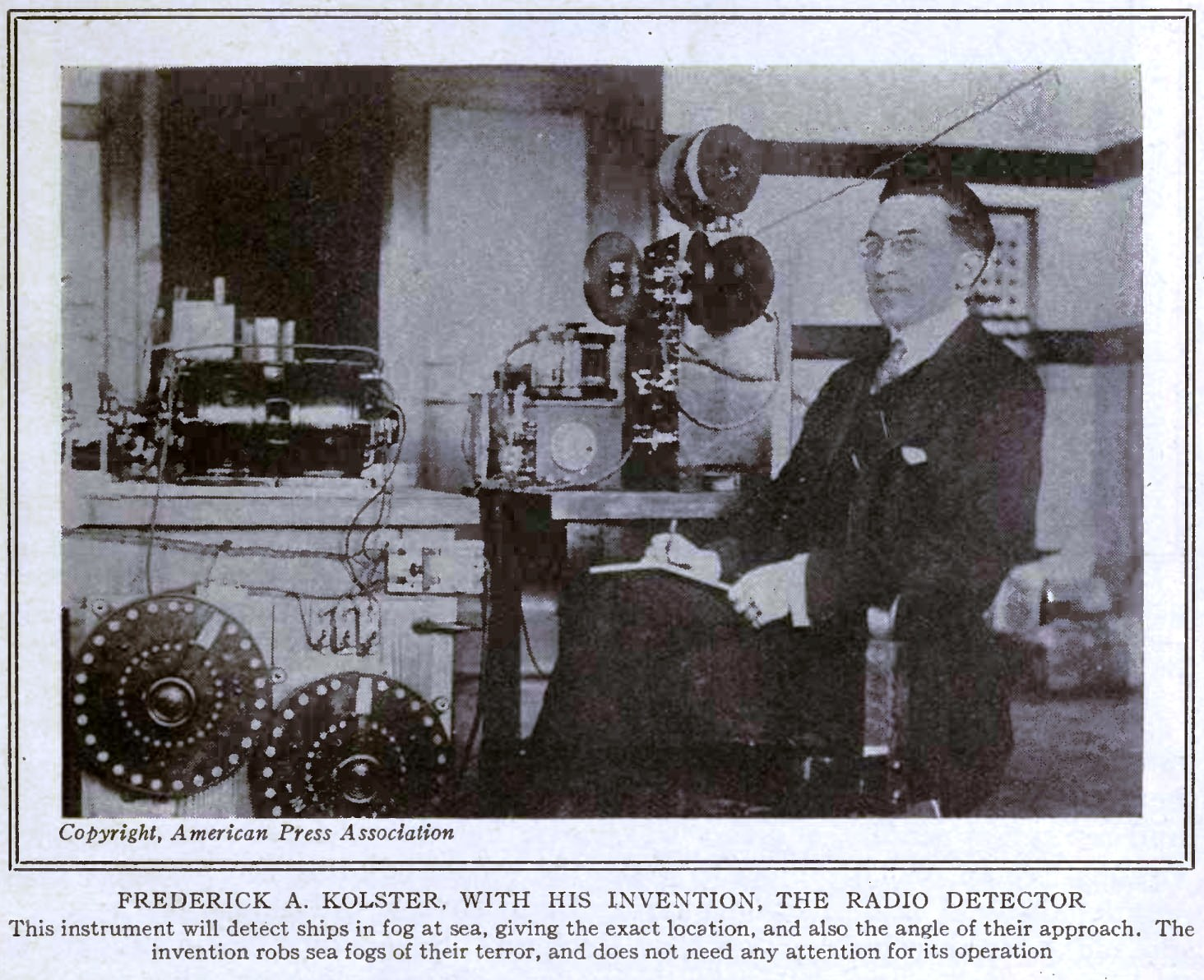 Frederick A. Kolster, with his invention, the radio detector